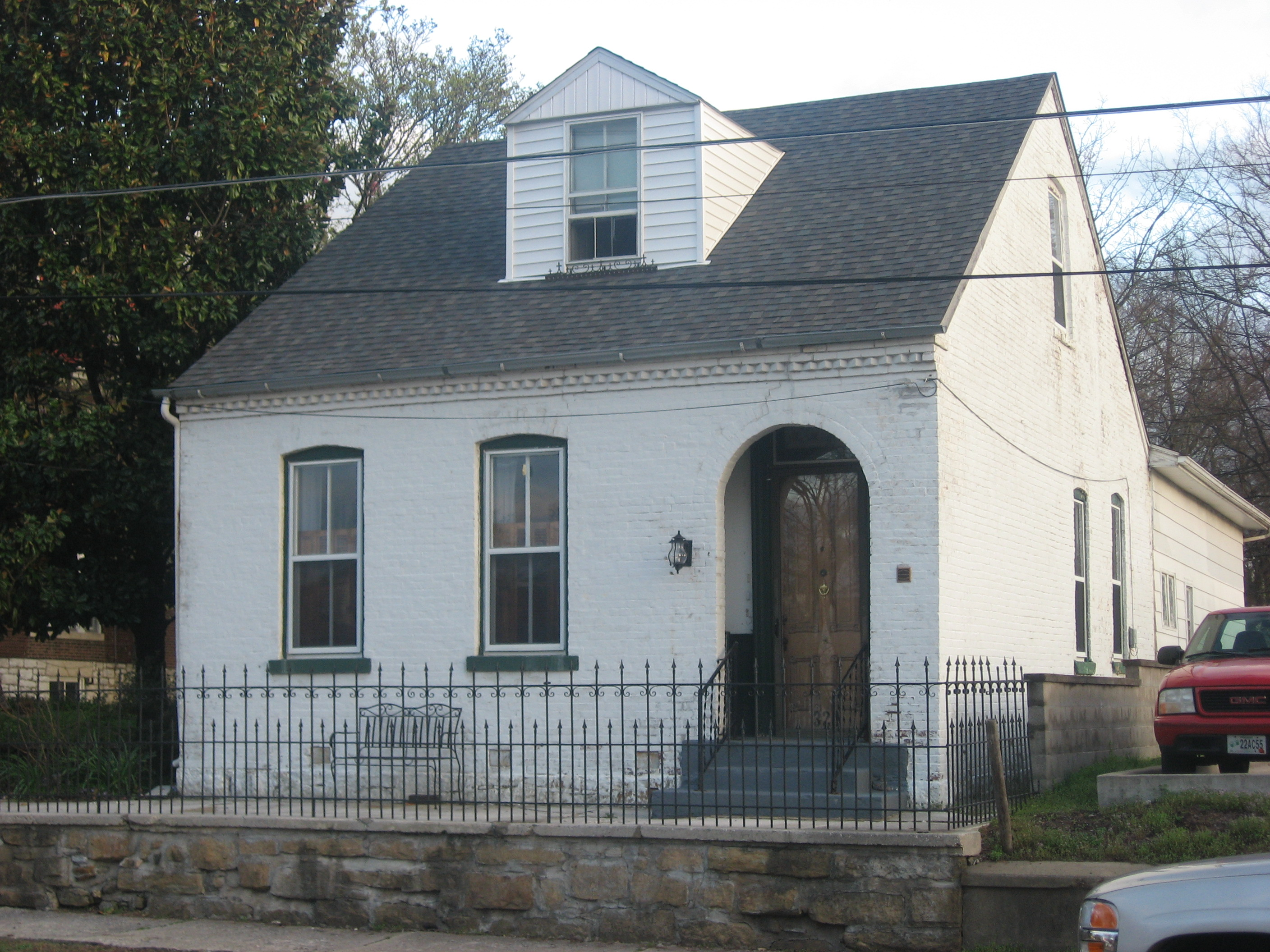 Front and western side of the House at 323 Themis Street in Cape Girardeau, Missouri, United States. Built in 1864 in a vernacular German style, it is listed on the National Register of Historic Places, and it is part of a Register-listed historic district, the Courthouse-Seminary Neighborhood Historic District.